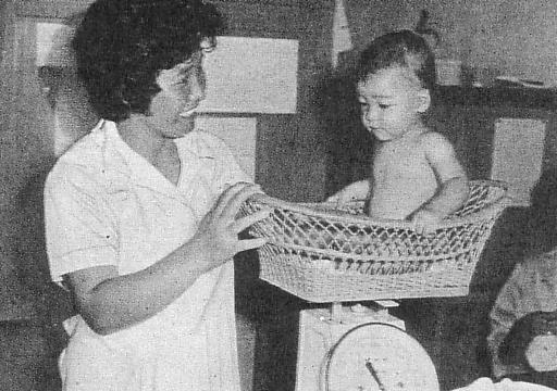 Public Health Nurse in Gushikawa Village Office, Kumejima.